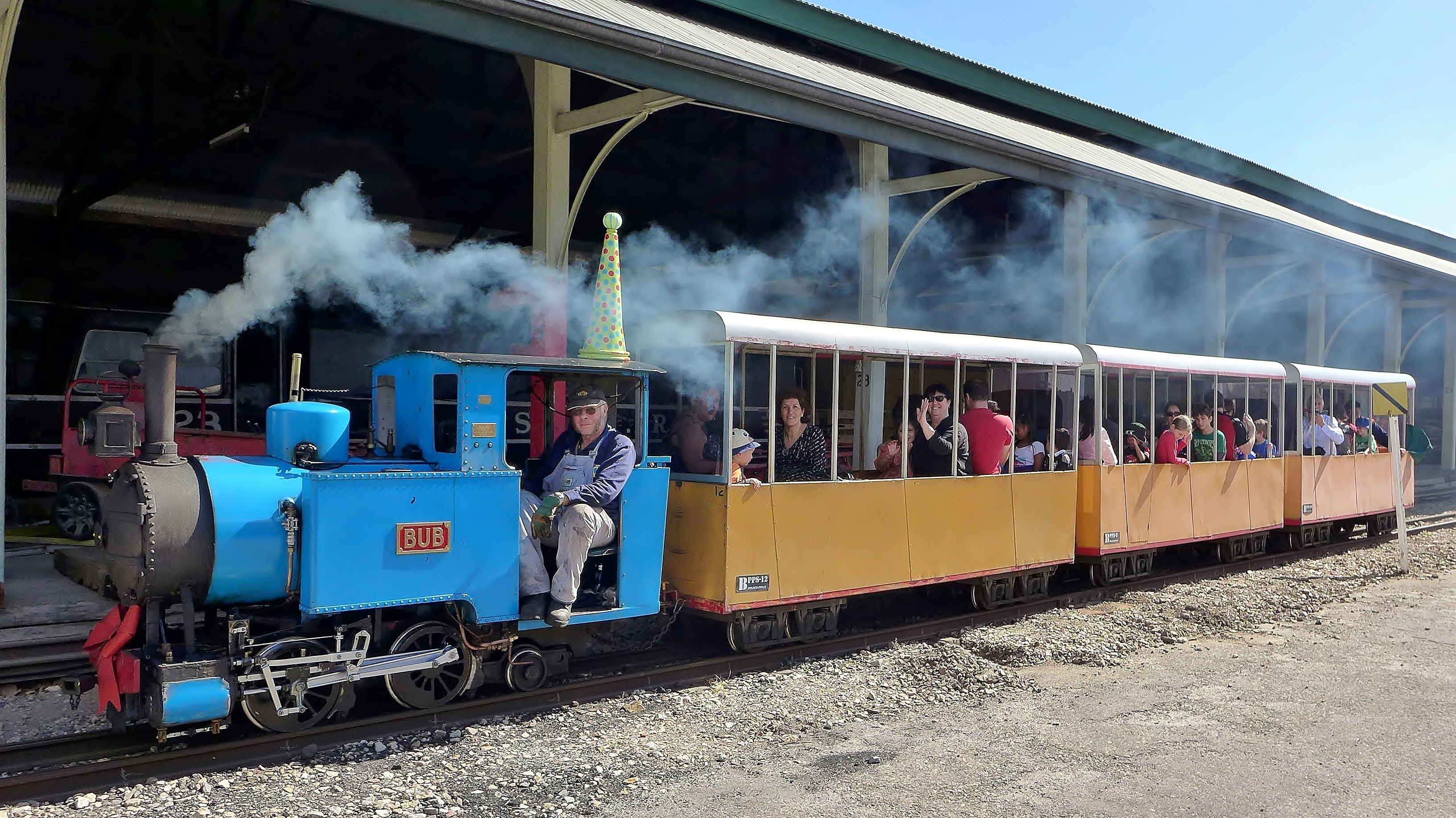 Bub, a 457 mm gauge 0-4-2 tank locomotive, operating a train on the miniature railway at the National Railway Museum (Port Adelaide).